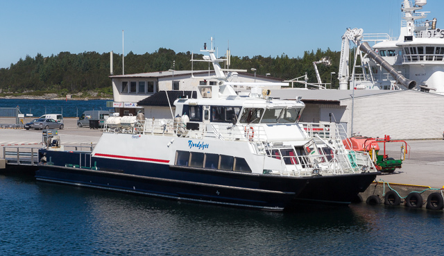 MF Fjordglytt is docked at Florø harbour in 2014.